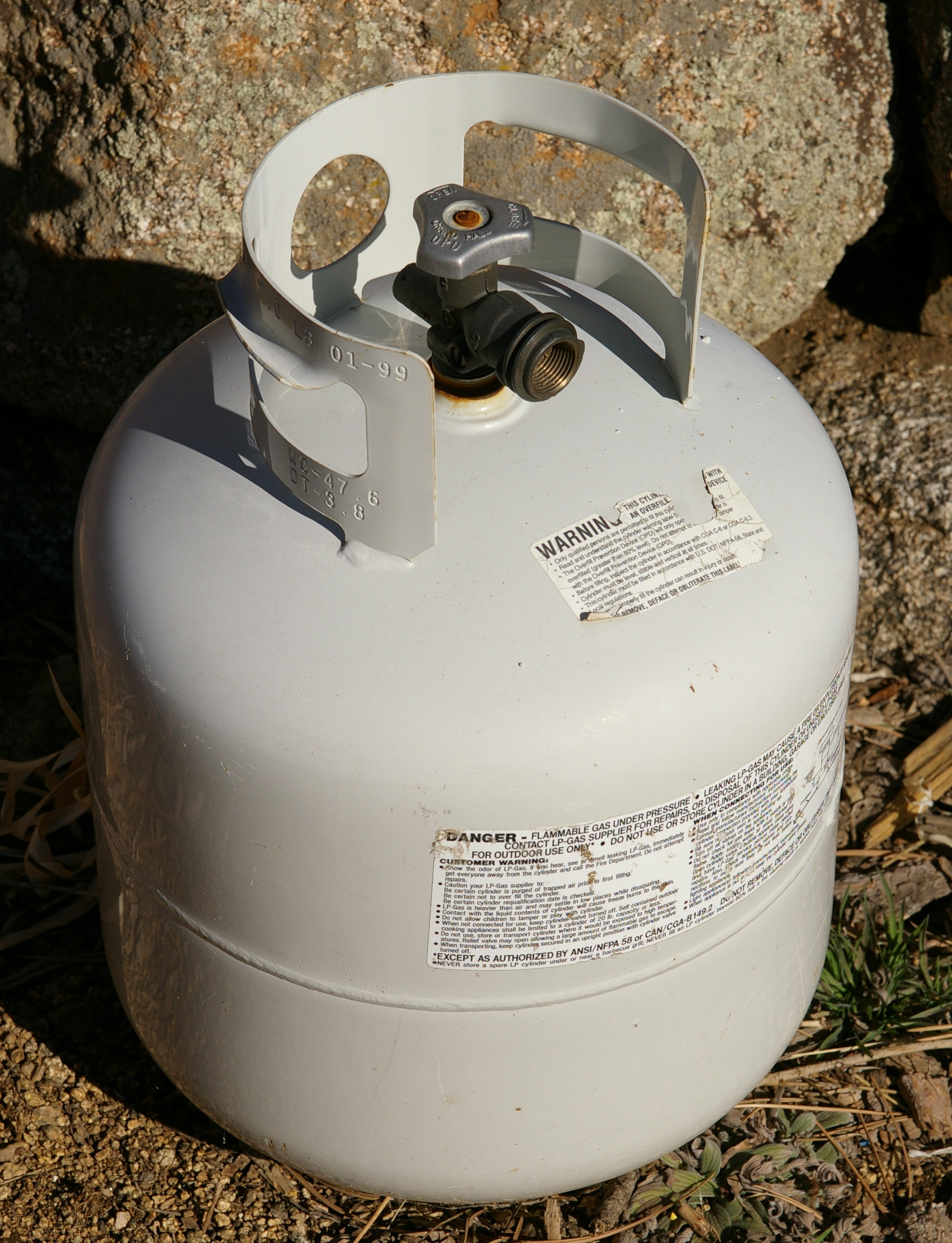 A 20 lb (9.1 kg) steel propane cylinder. This cylinder is fitted with an overfill protection device (OPD) valve, as evidenced by the trilobular handwheel. This cylinder has a water capacity specification of 1,318 in3 (21.60 liter, 5.71 U.S. gallons). Propane capacity is is specified as approximately 82% of that (17.8 liter, 4.70 U.S. gallons), to provide space for liquid expansion at higher ambient temperature. The valve assembly is equipped with an automatic pressure relief valve, to allow propane to vent and prevent the cylinder from rupturing.